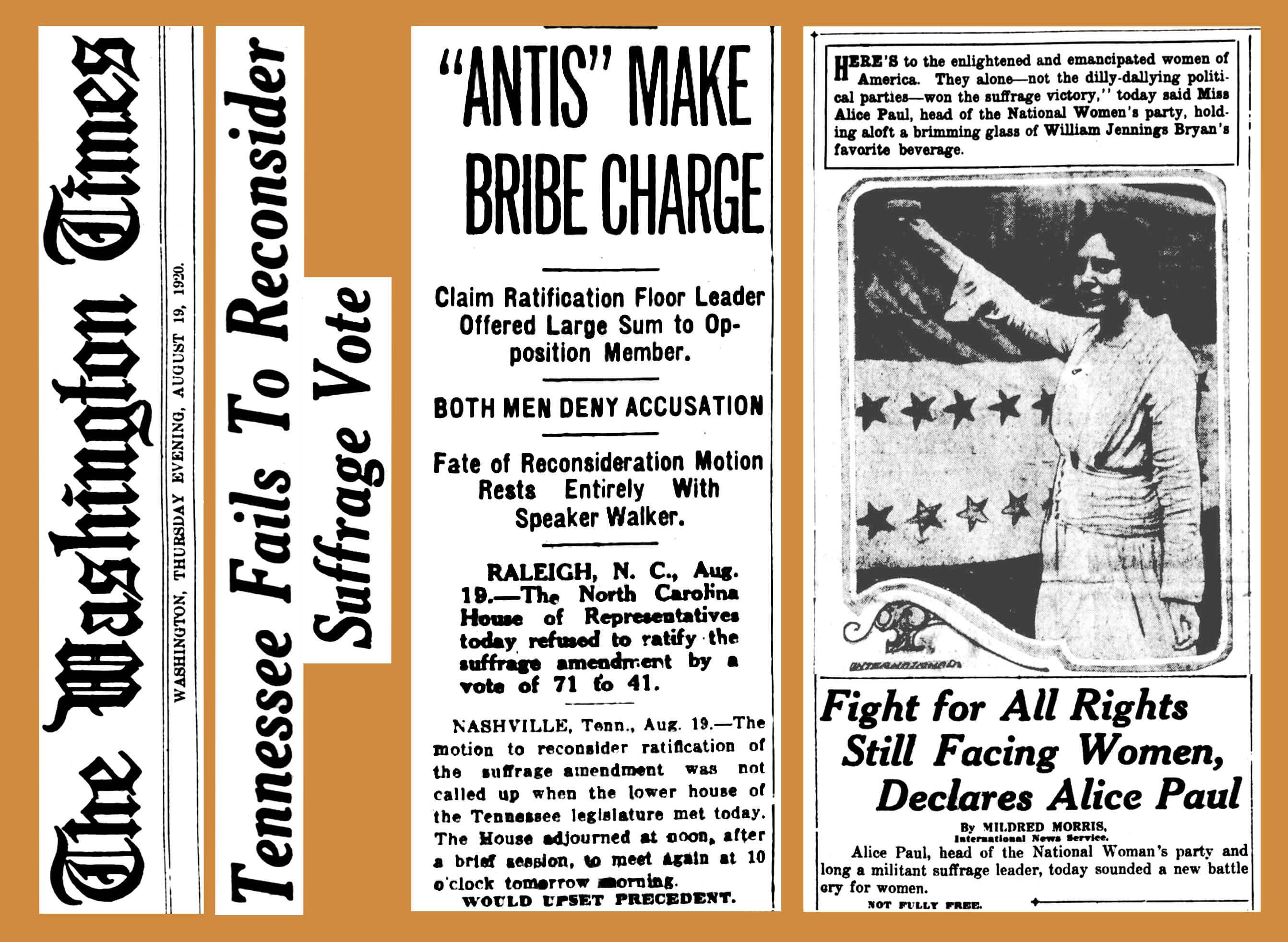 Clipping of parts of front page of The Washington Times, August 19, 1920, after Tennessee ratified the Nineteenth Amendment to the United States Constitution (women's suffrage amendment)